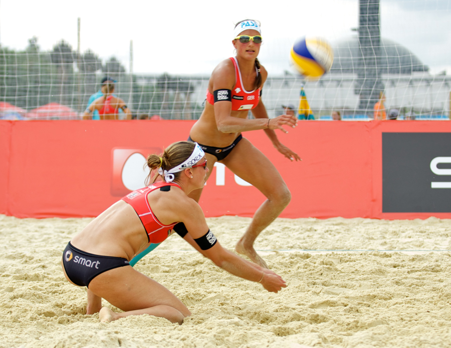 Grand Slam Moscow 2012